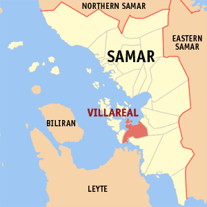 Map of Samar showing the location of Villareal